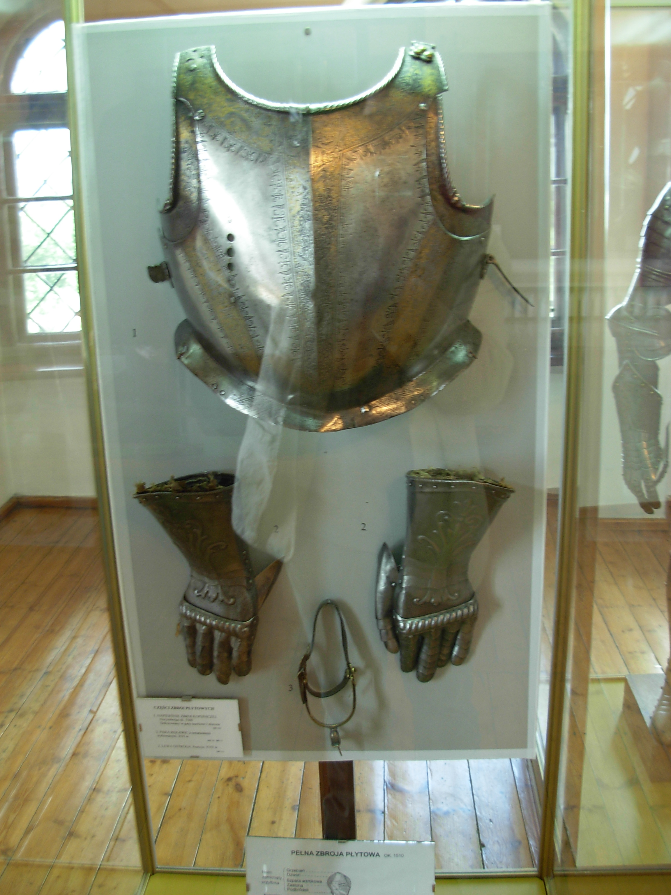 Breastplate and gauntlets from Muzeum Zagłębia, in Będzin Castle, Poland